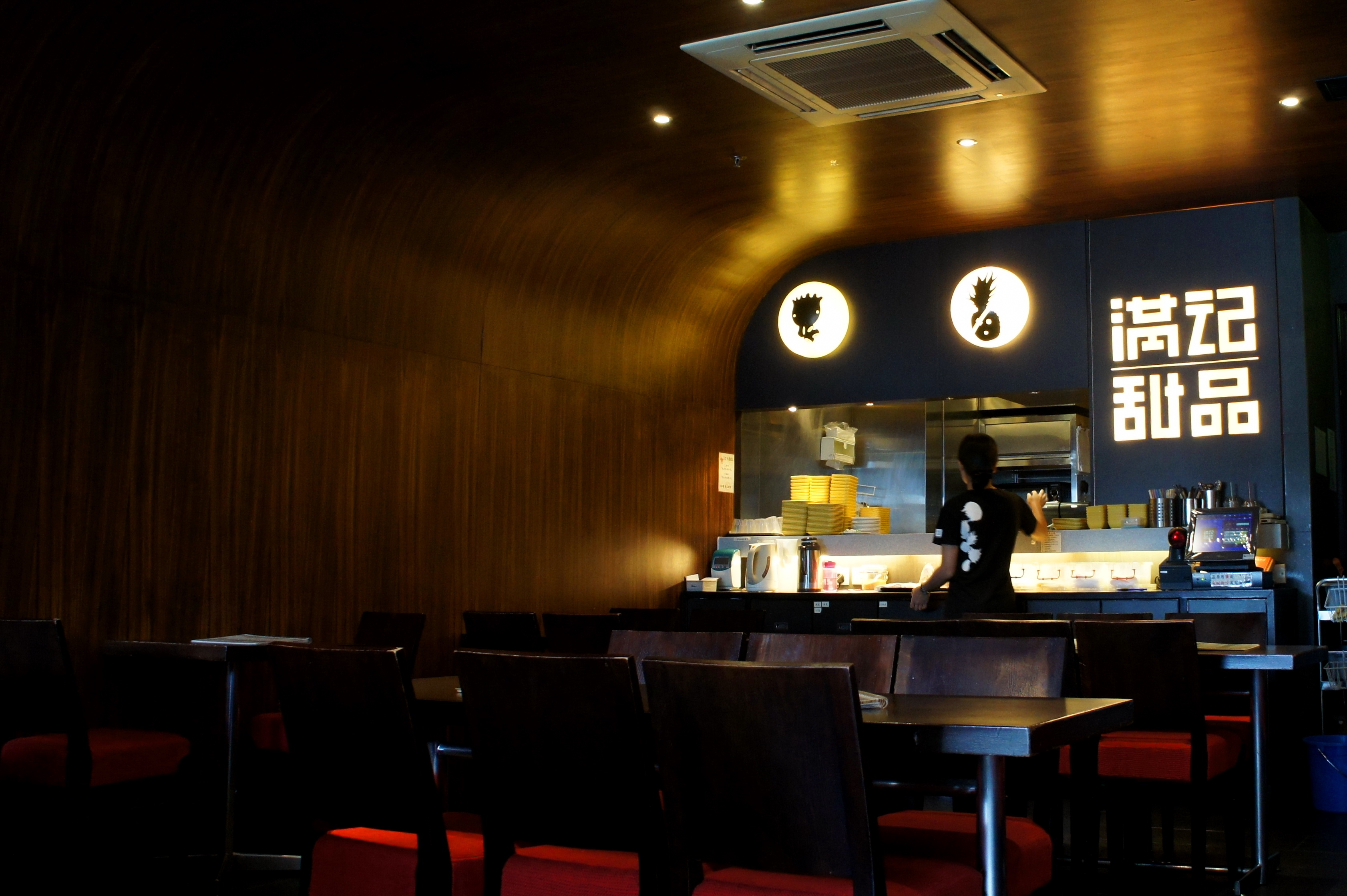 Honeymoon Dessert (Ngong Ping Shop) Shop No.5, Ngong Ping Village, Ngong Ping, Lantau Island, Hong Kong.